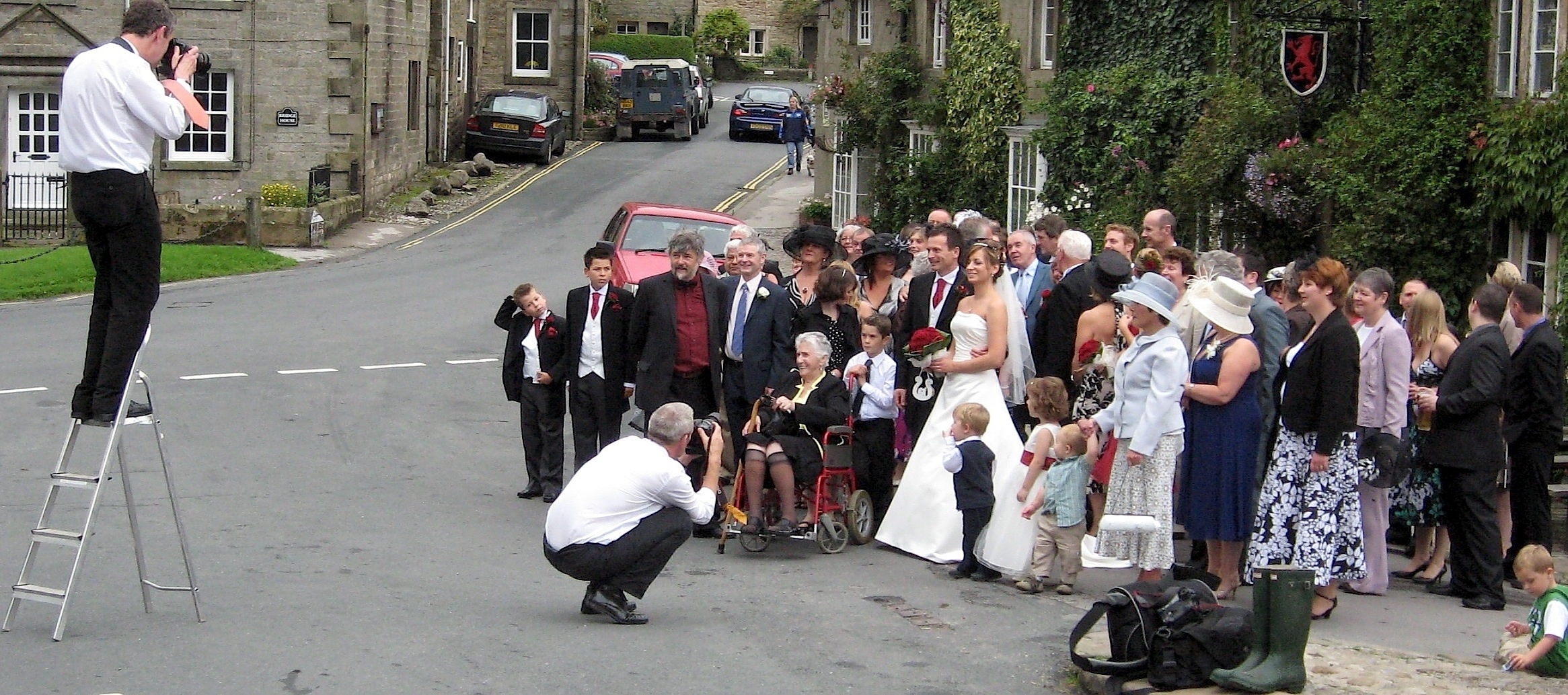 Wedding party photographed outside Red Lion, Burnsall, North Yorkshire